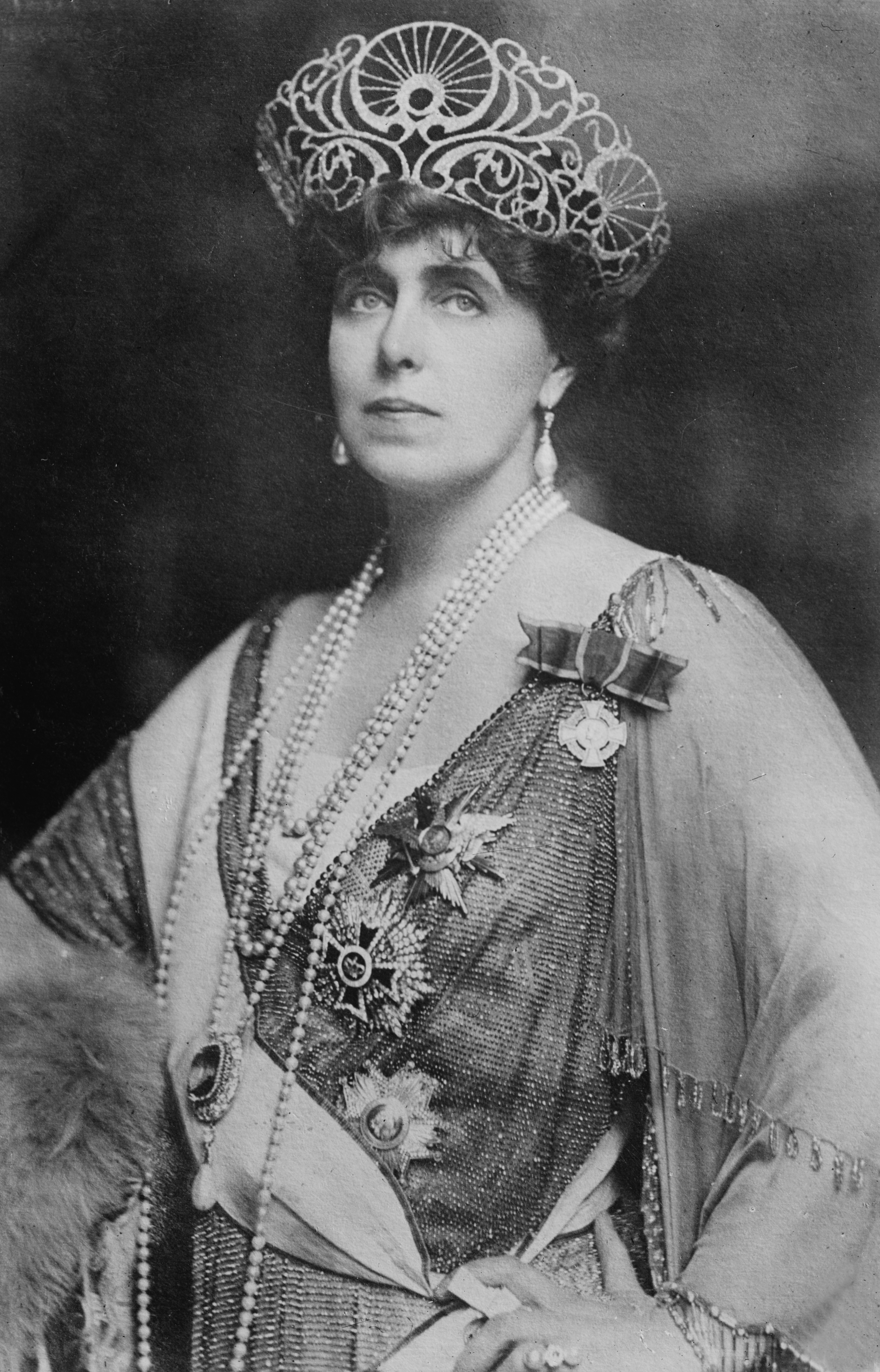 Queen Mary of Romania